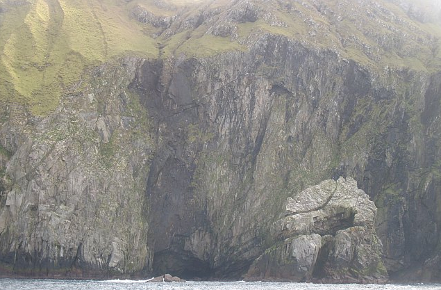 Bradastac Stack below the northern crags of Conachair.